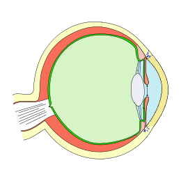 Simple diagram of a cross-section of the human eye